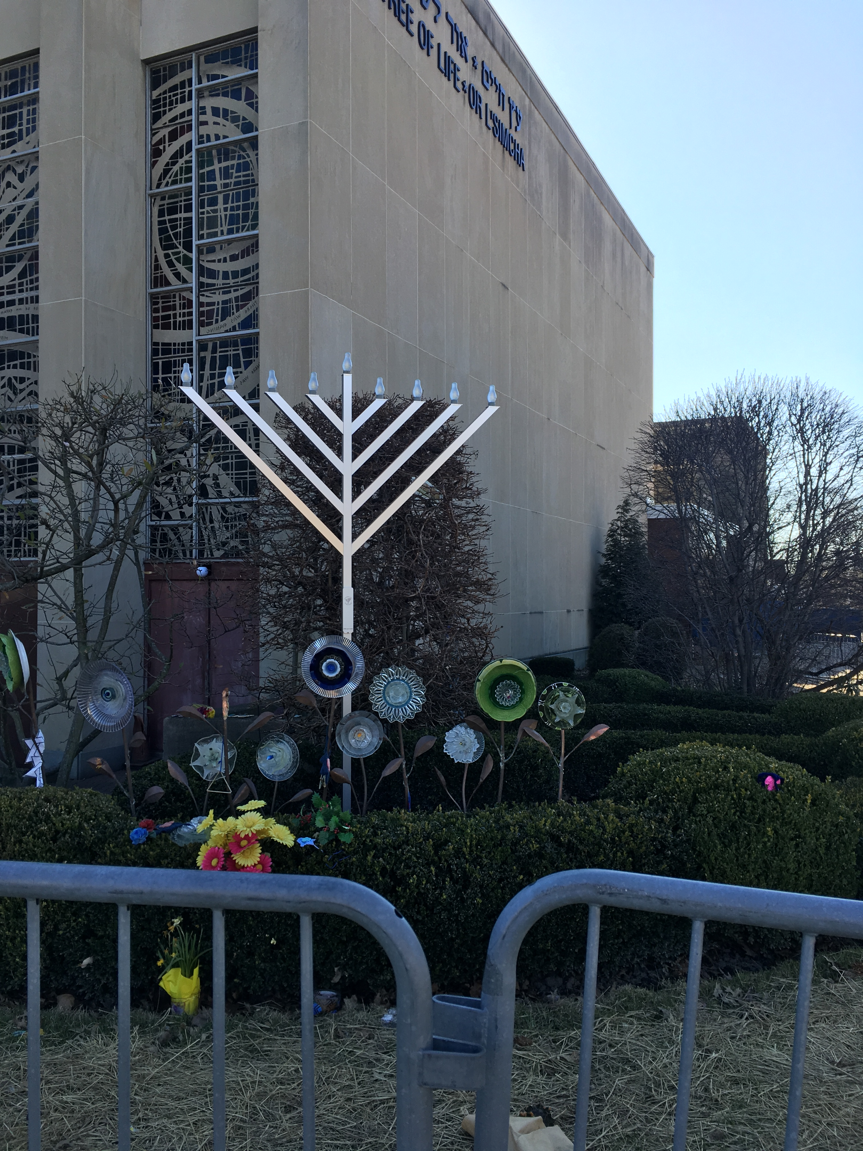 5 months after the shooting, there are still memorials outside the Tree of Life synagogue.